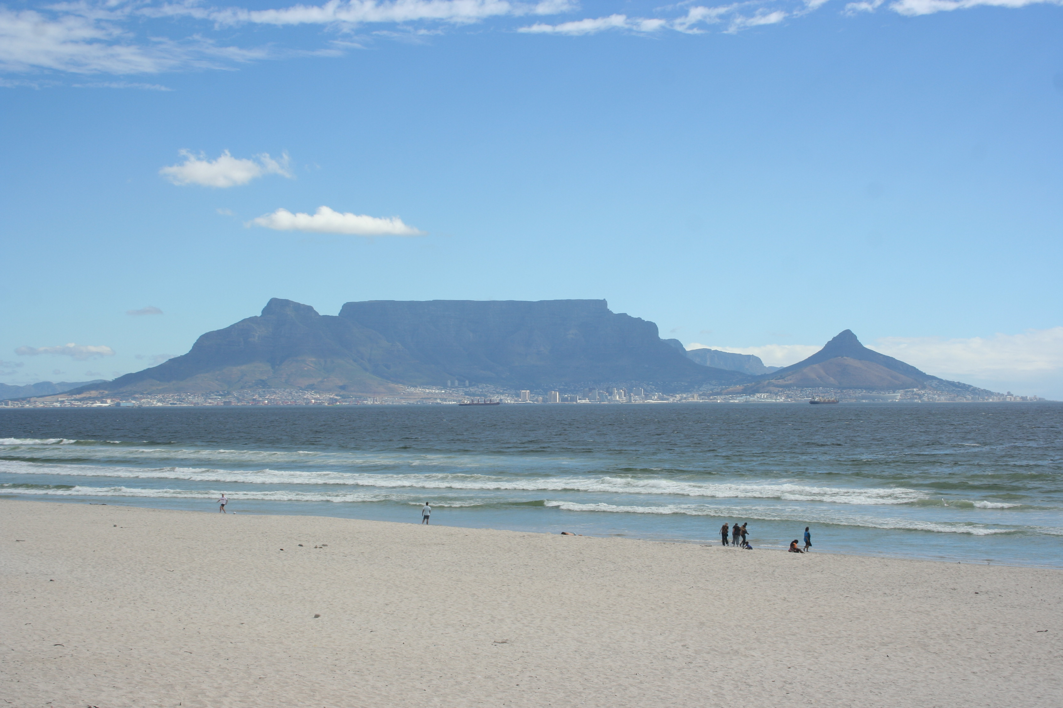 View from Bloubergstrand